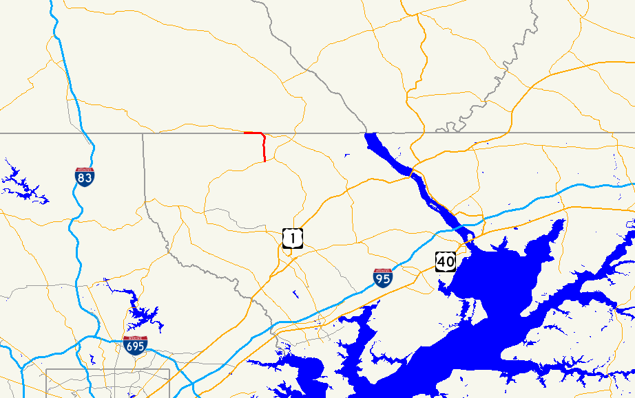 Map of Maryland Route 624